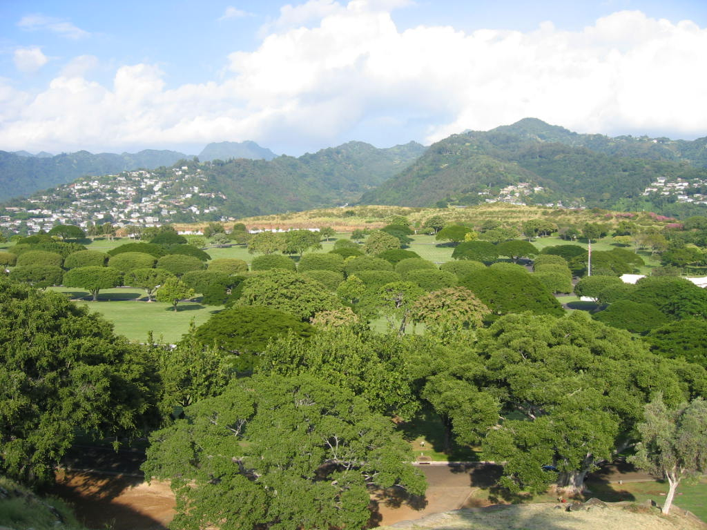 View from the rim of Punchbowl Crater